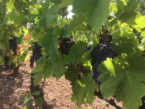 Grapes in Usje village in Skopje region